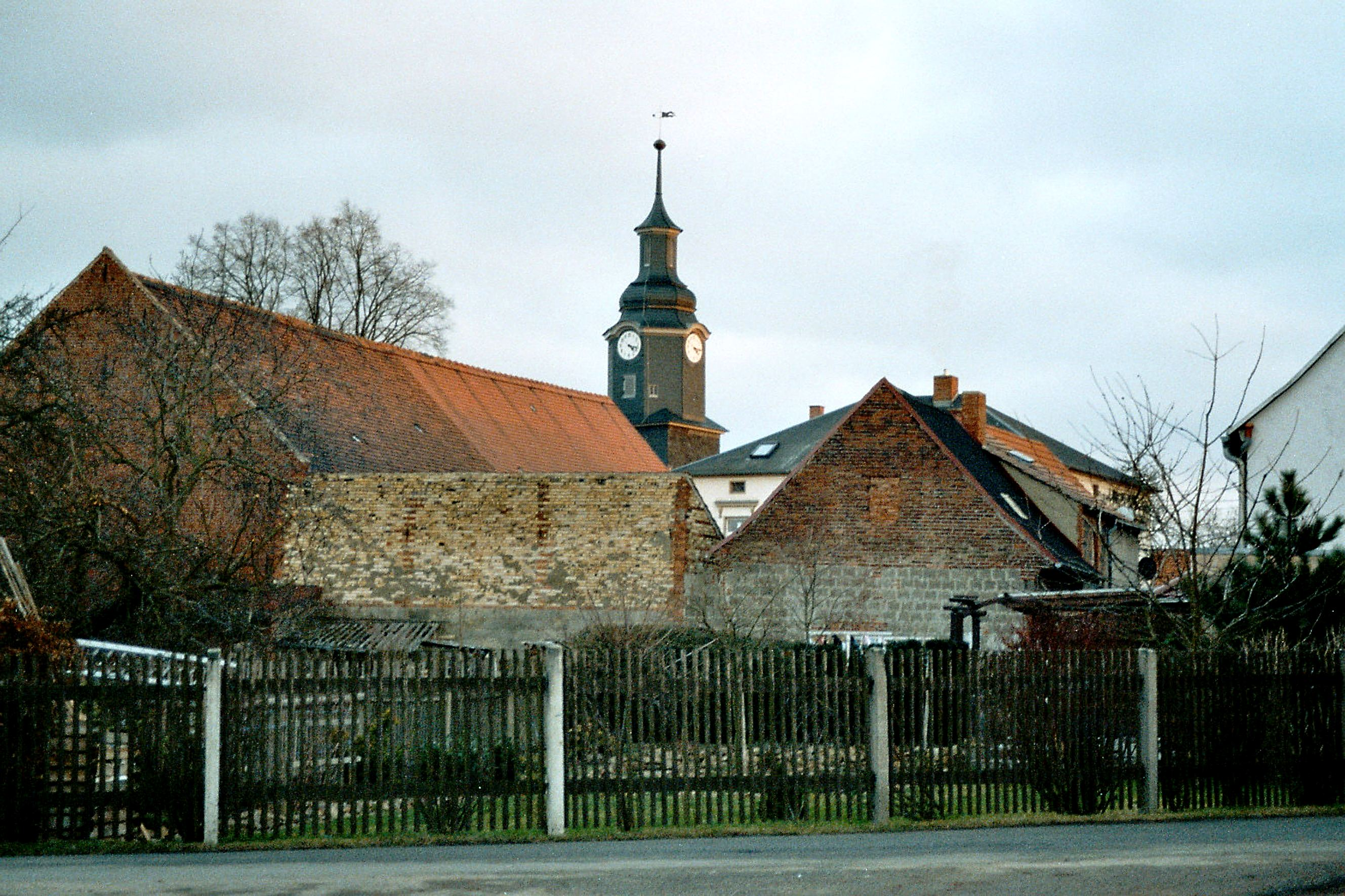 View to the village church